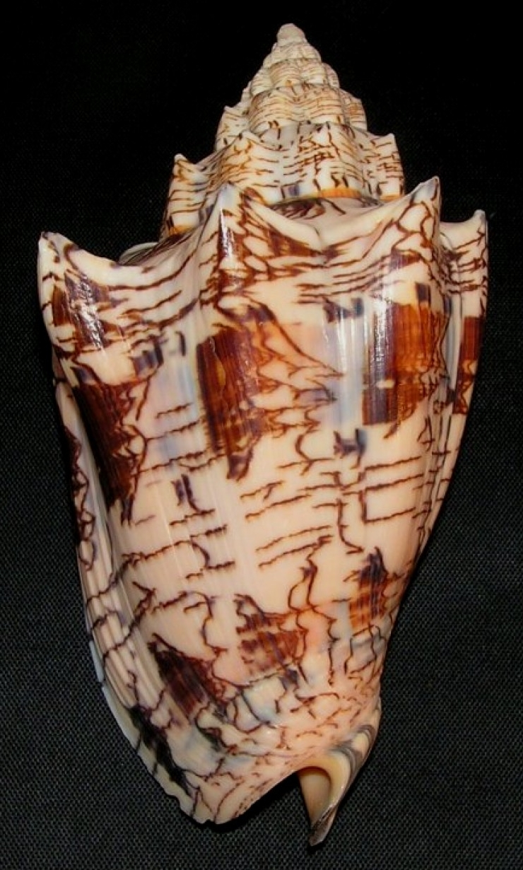 Photograph of the seashell Voluta ebraea Linnaeus, 1758 (upper view) / Origin: Brazil. Natal, Rio Grande do Norte state.